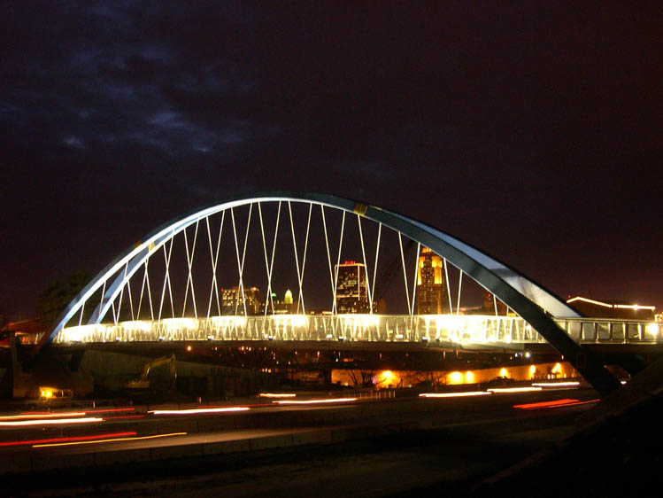 Photo courtesy of the Federal Highway Administration/DOT